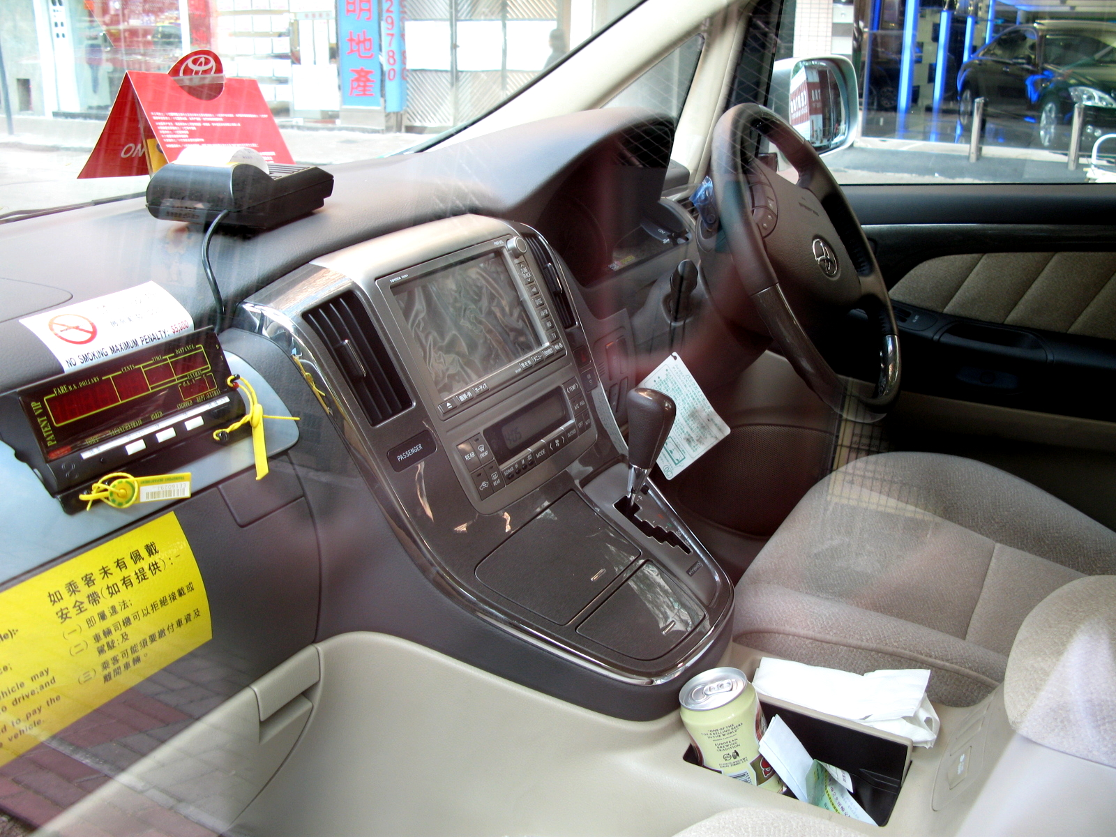 HK Alphard Taxi Interior